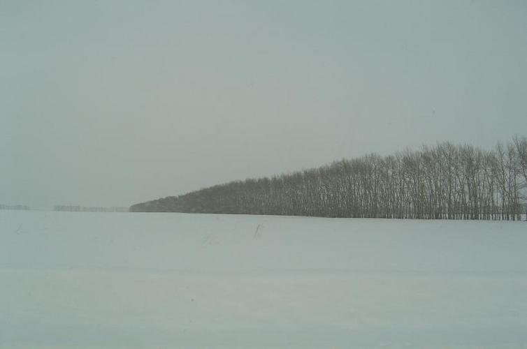 Windbreaks (trees) on the Russian steppe, Altai Krai, Russia. March 2004. Photograph taken by user:Doogal.